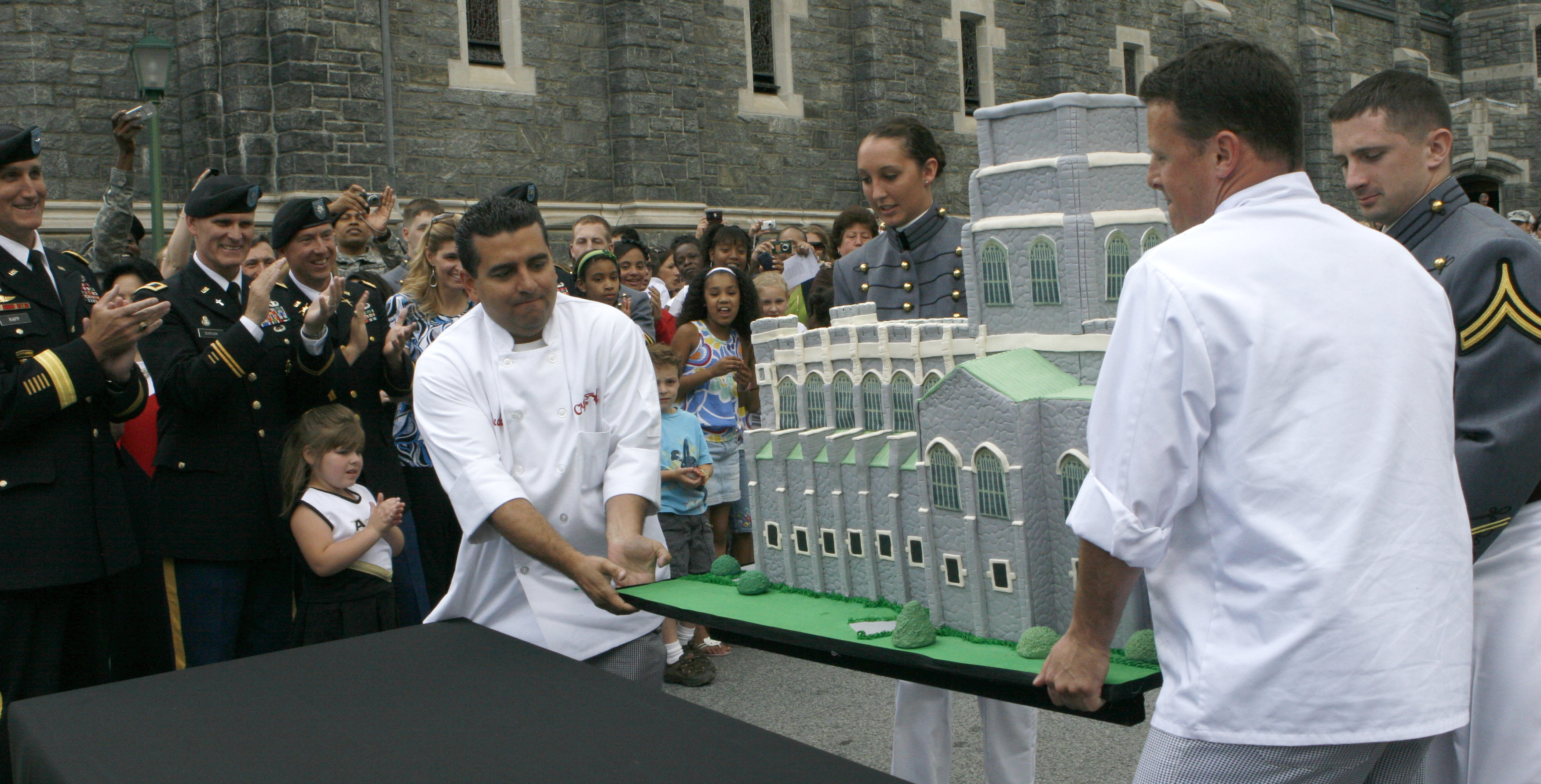 On his first trip to West Point, the “Cake Boss” presented a giant chapel cake for the Cadet Chapel Centennial celebration on June 11. A TLC production crew captured the presentation for a Season Three episode of “Cake Boss” which aired Nov. 15.